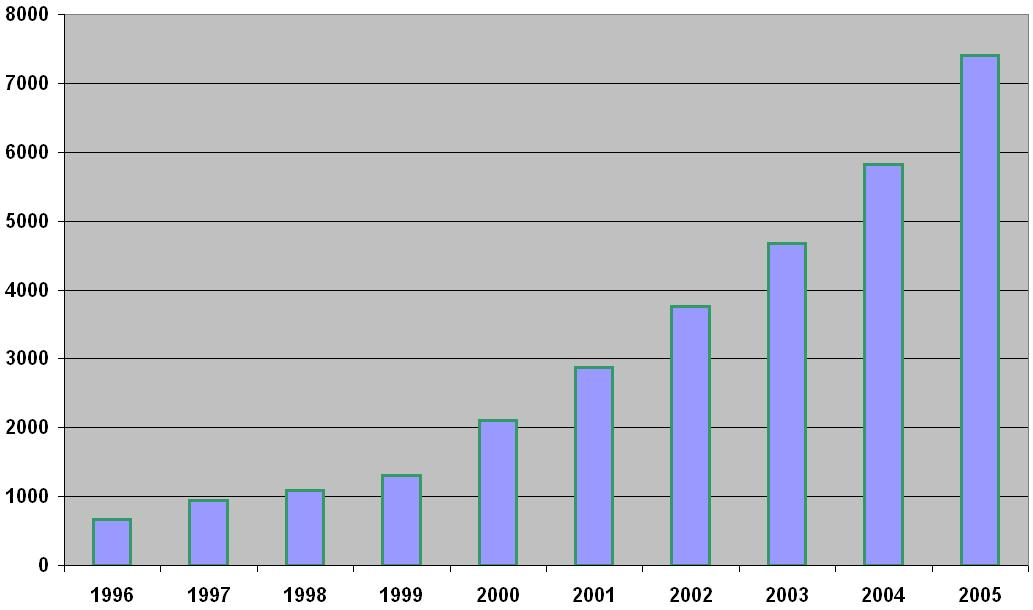 Number of participants of Ljubljana marathon